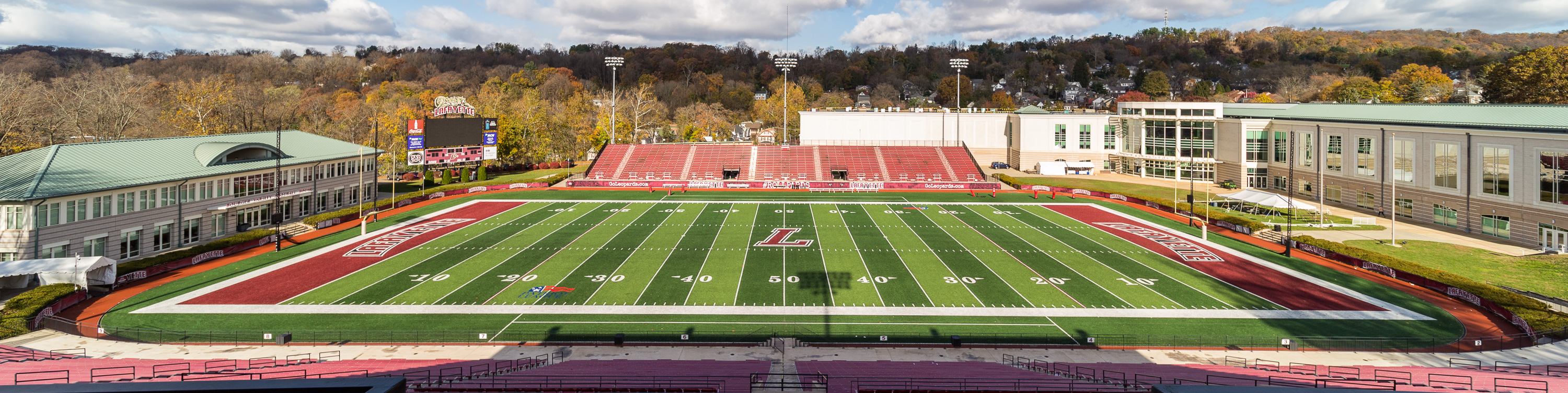 Fisher Stadium at Lafayette College, Easton Pennsylvania